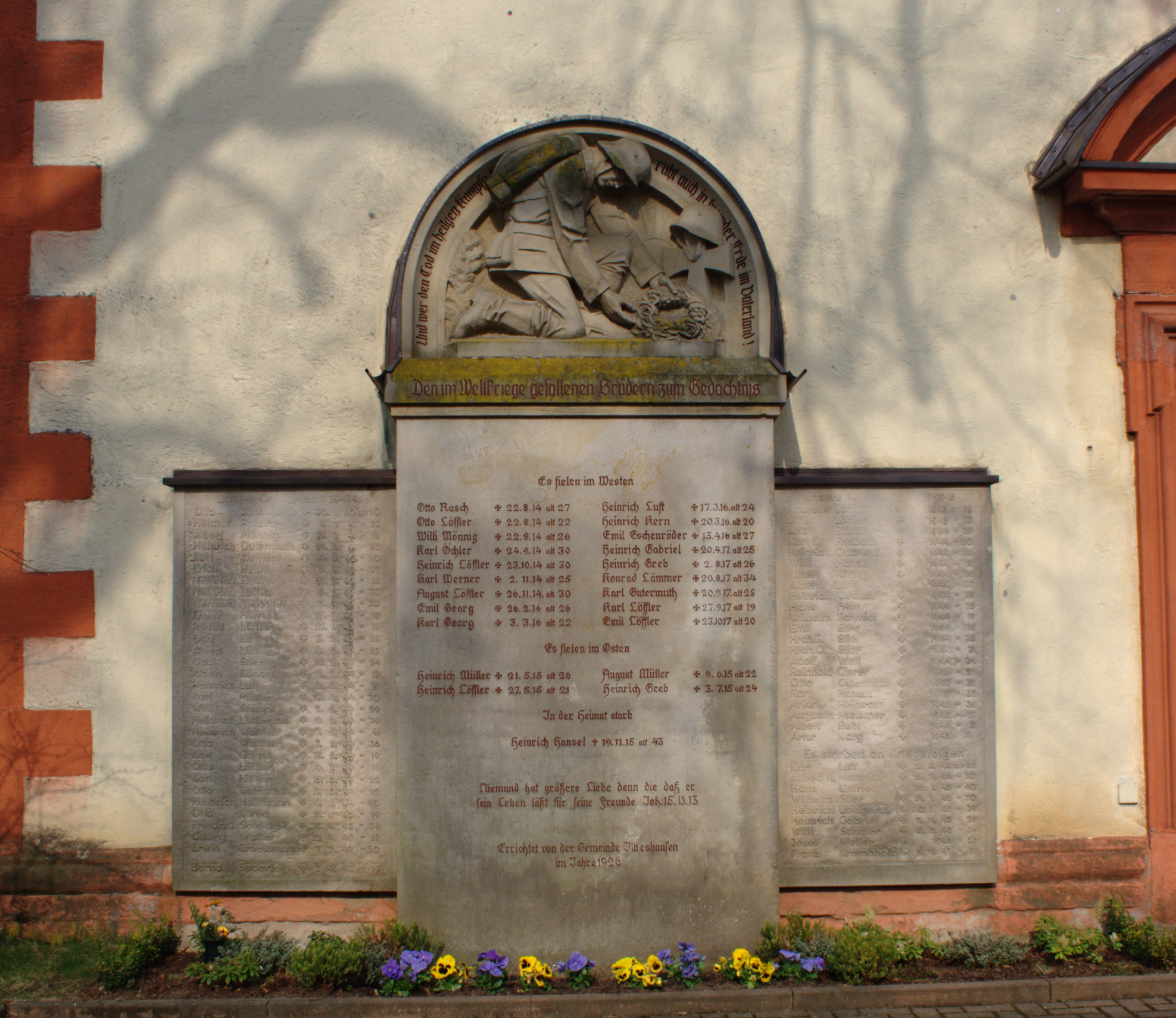 Protestant church (memorial) in Ilbeshausen-Hochwaldhausen, Grebenhain, Hesse, Germany